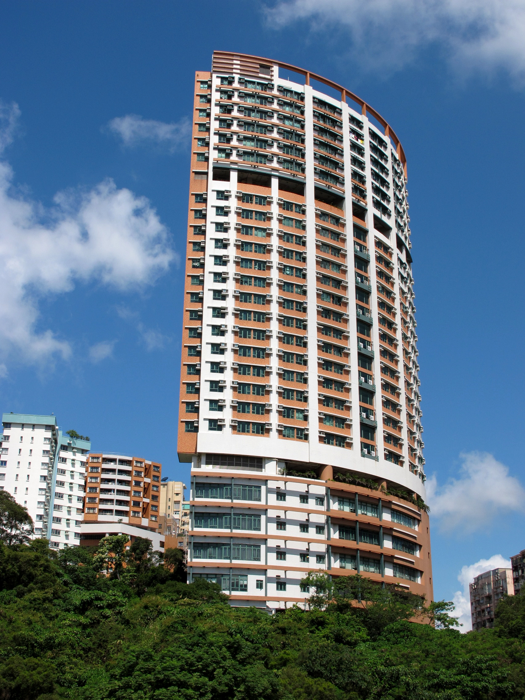 HK Shue Yan University Hostel